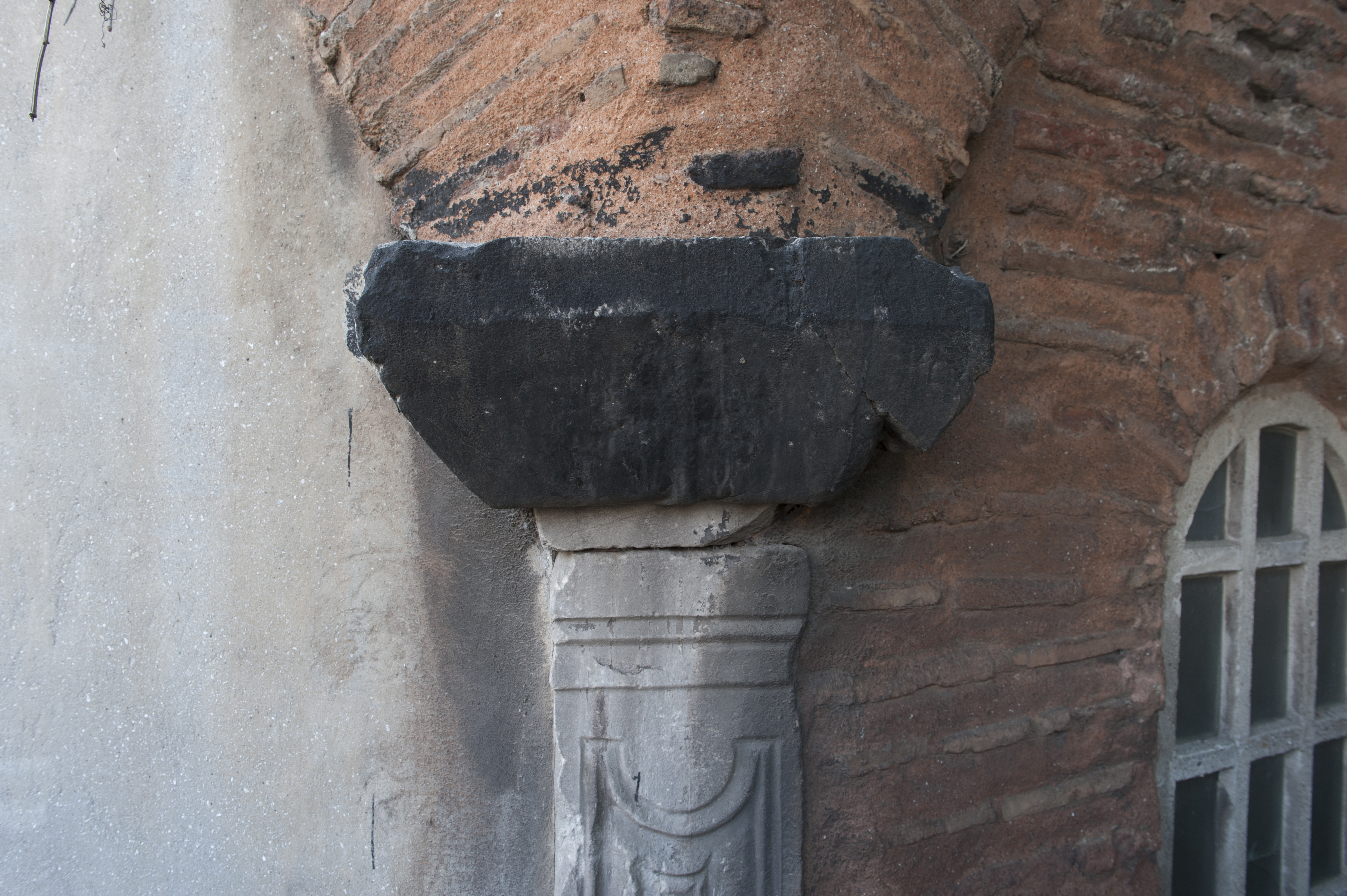 It dates probably to the end of the 14th century. Though Strolling through Istanbul refers to it as a (former) church, the Wikipedia claims that for its small size it probably was a martyrion or burial chapel. It is an irregular octagon with an apse oriented towards the east. The masonry uses alternate courses of brick and ashlar, giving to the exterior the polychromy typical of the Palaiologan period. Remnants of walls still present in the northwest and south sides before the restoration showed that the building was not isolated, but connected with other edifices. A minaret has also been added to the restored building. Restoration was necessary after the 1894 Istanbul earthquake, which had its epicentre under the Sea of Marmara, partially destroyed the mosque, which was restored only between 1973 and 1976.